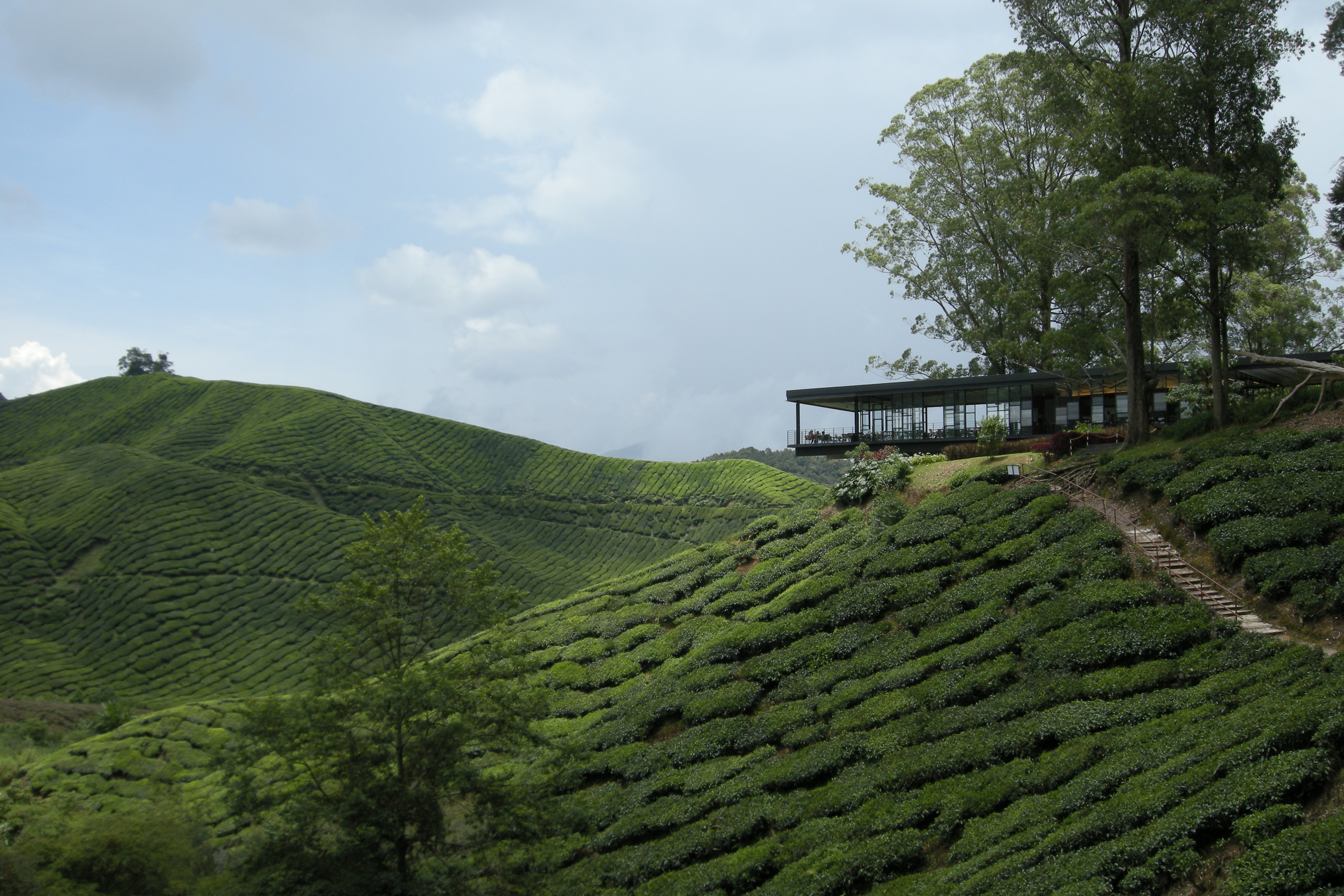 Tea valleys in Malaysia. BOH Plantations Sdn Bhd, the largest black tea manufacturer in Malaysia.